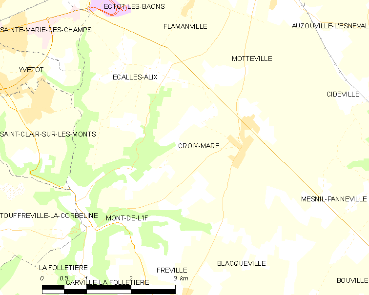 Map of French municipality Croix-Mare